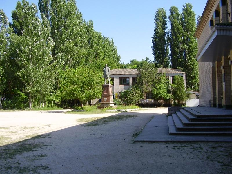 Central square of Strilkove, Kherson Oblast, Ukraine